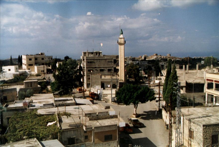 View from Anqoun, South Lebanon